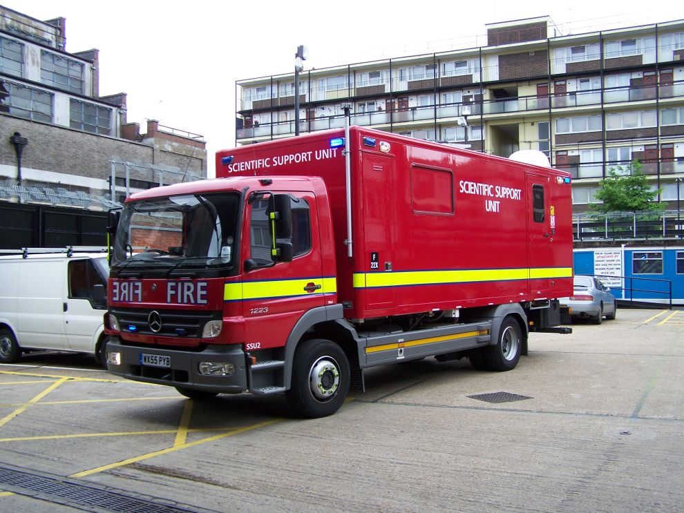 One of London's two Scientific Support fire units. With "FIRE" in mirror writing ("ERIF").